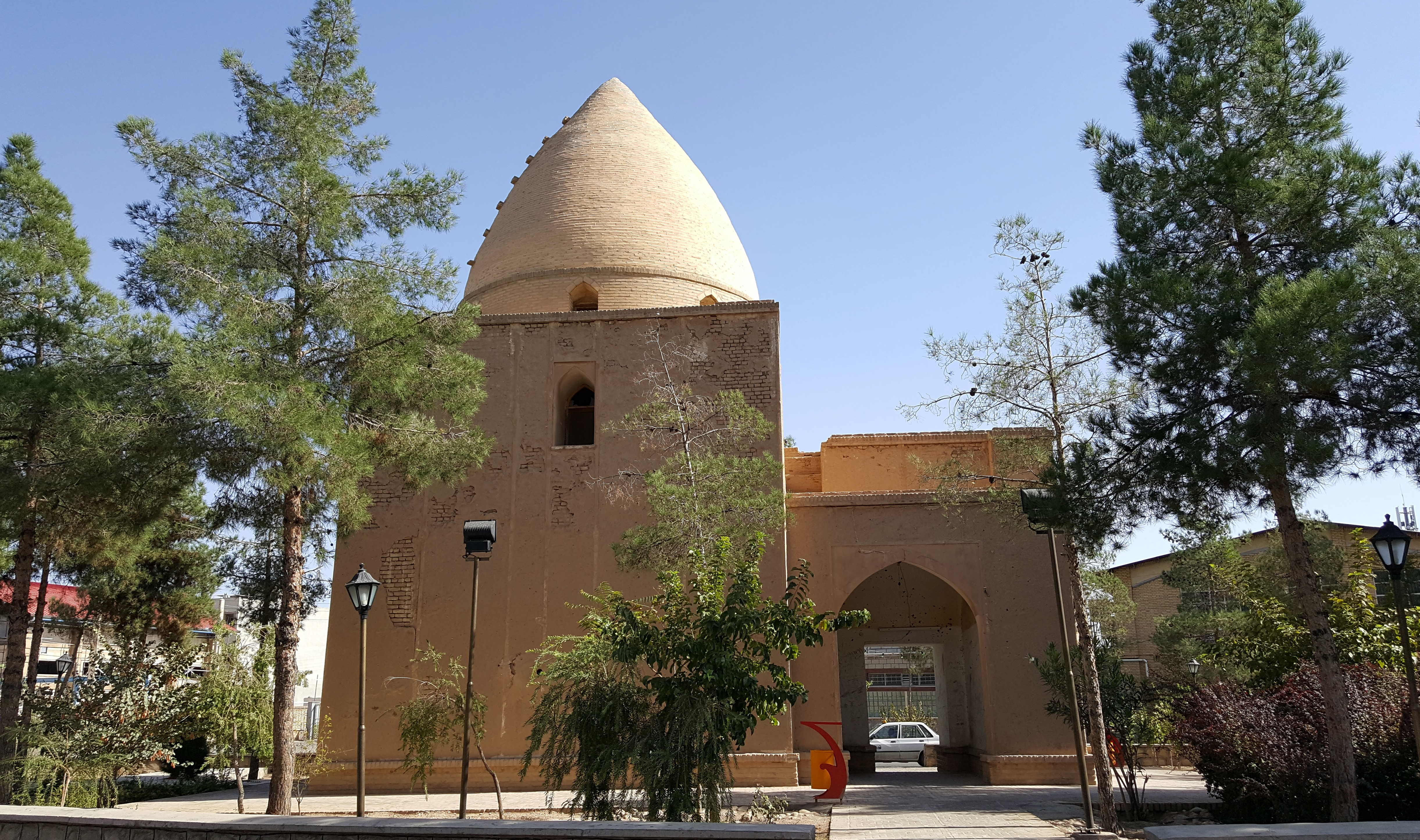 Tomb of Pir Najm-od-Din, Semnan.